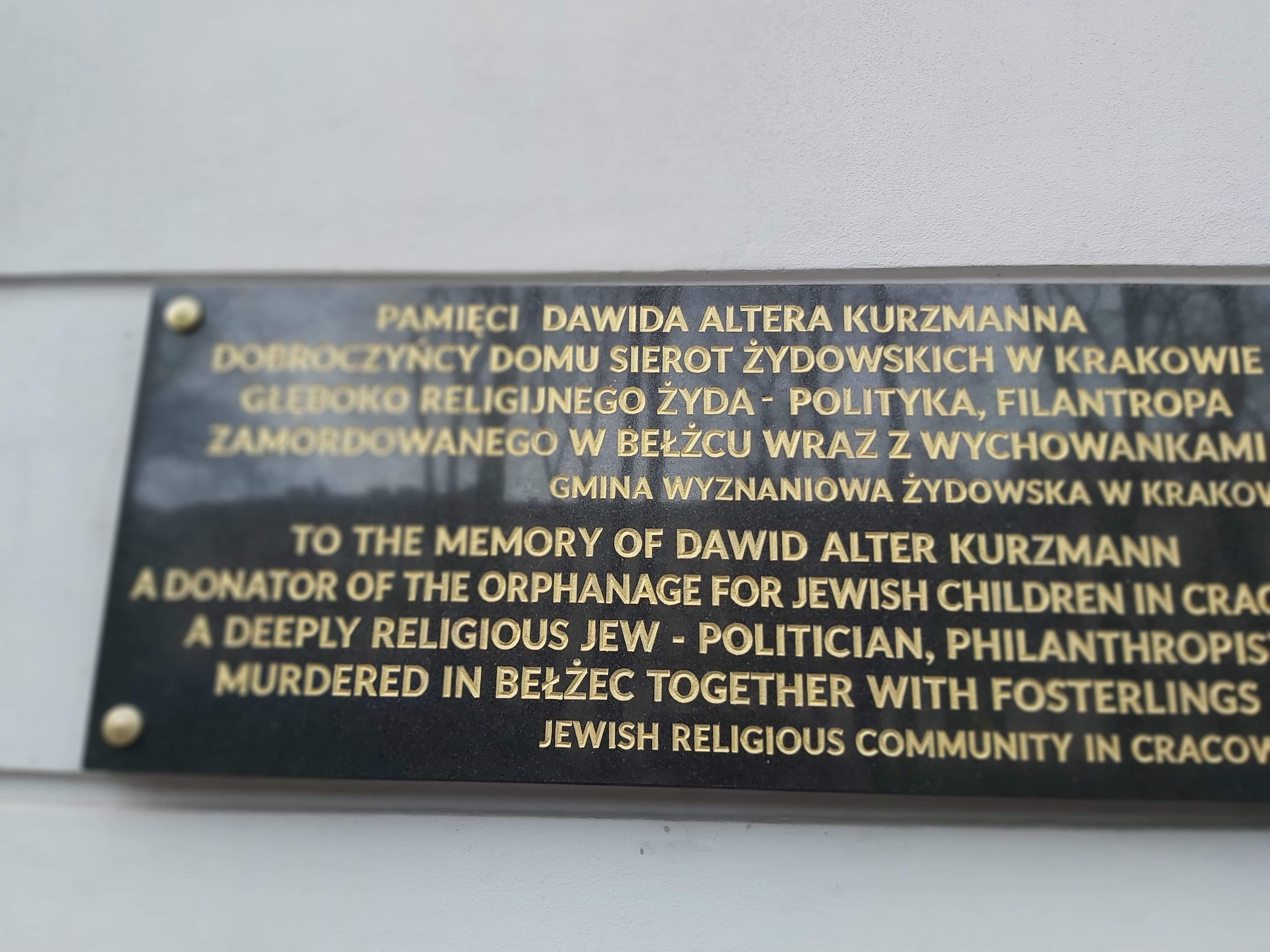 In memory of David Alter Kurzman and his orphanage